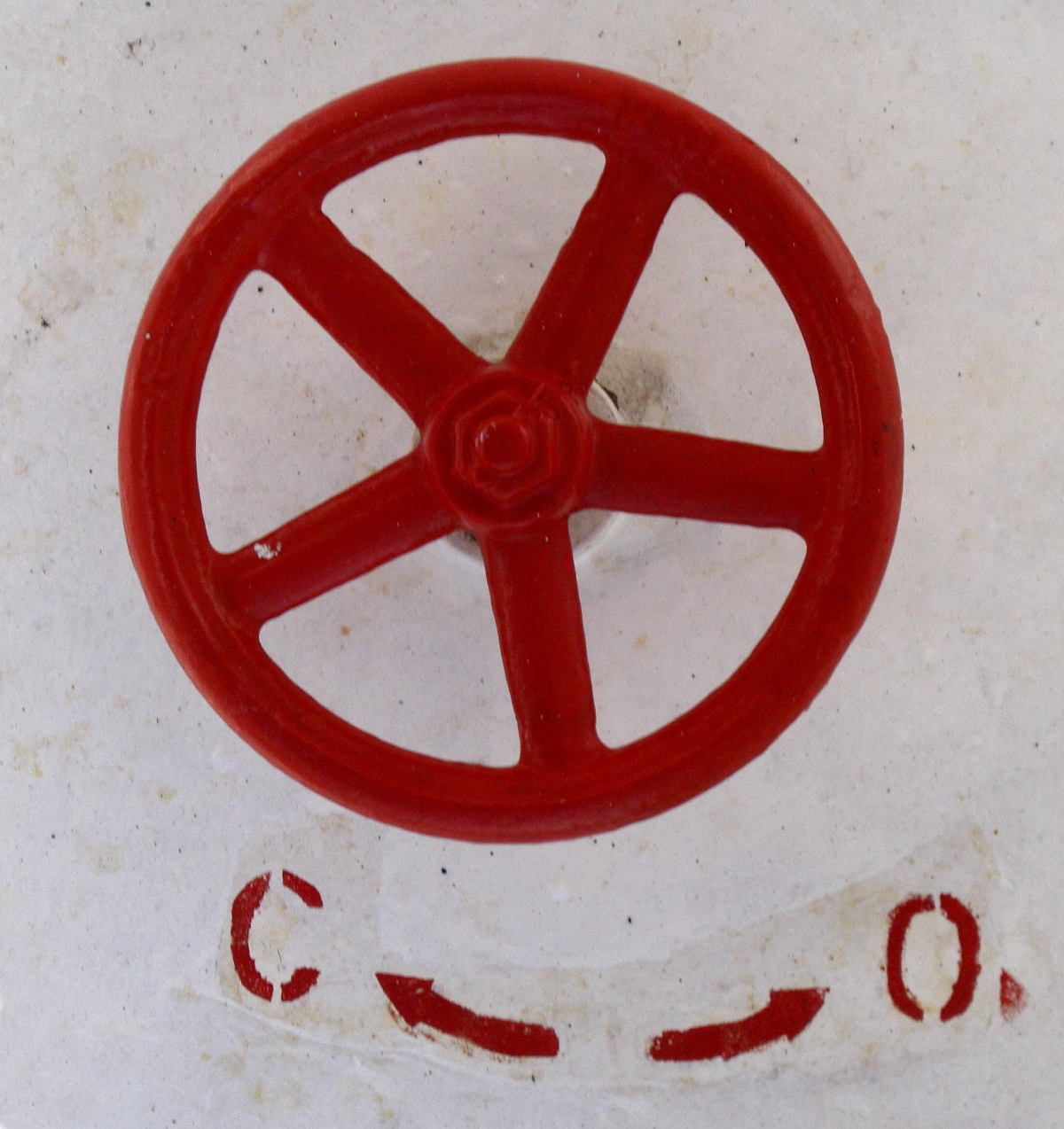 Wheel for opening a valve